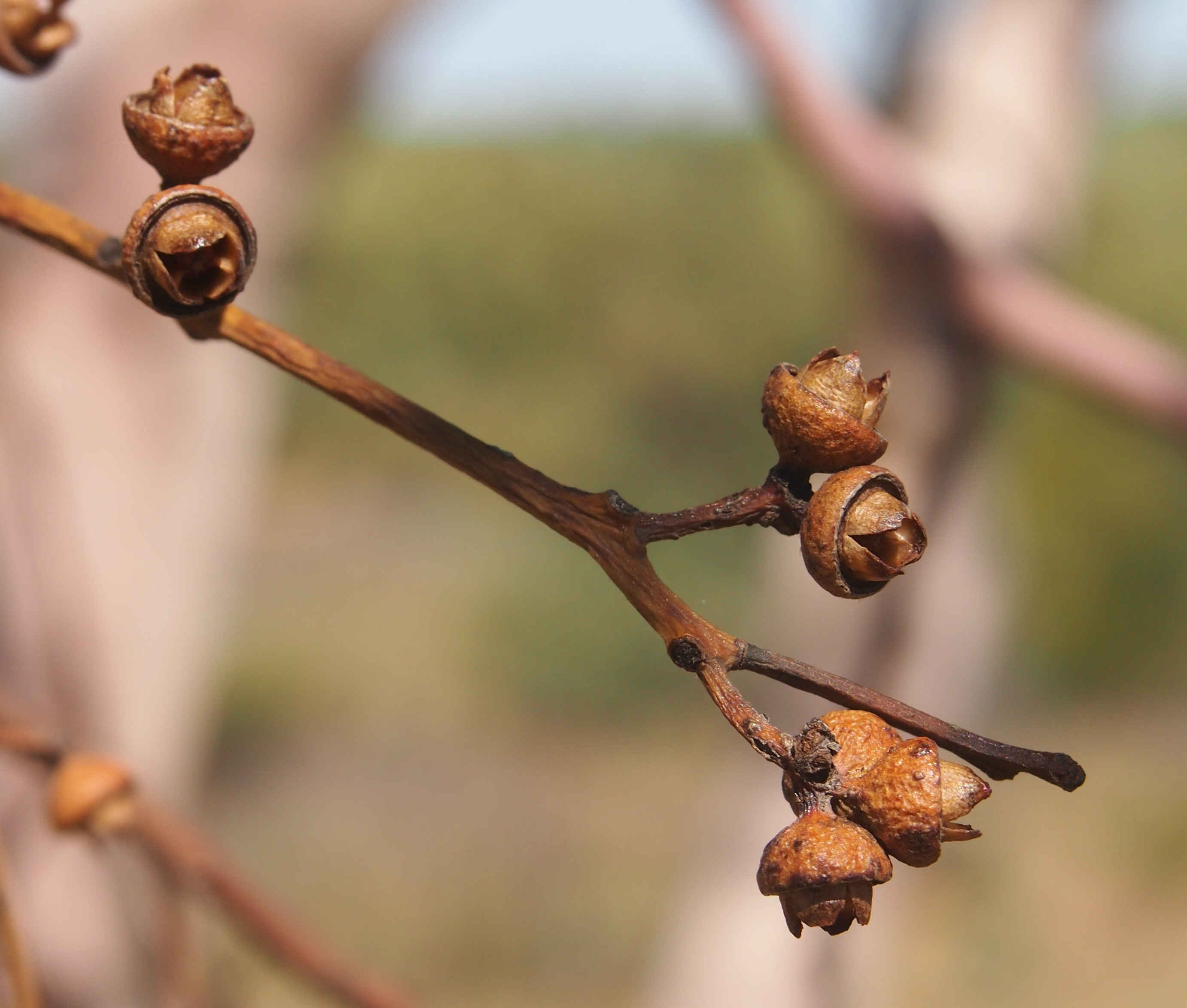 Eucalyptus leucophloia capsules